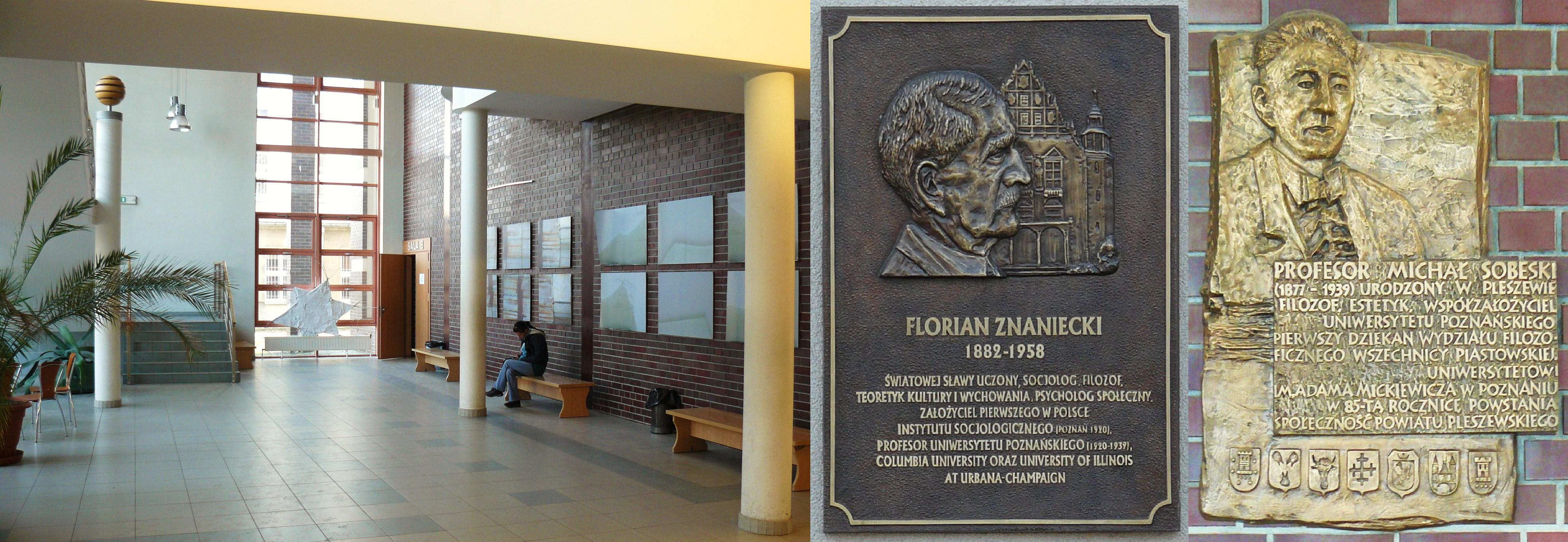 Collegium Znanieckiego UAM, Poznan.